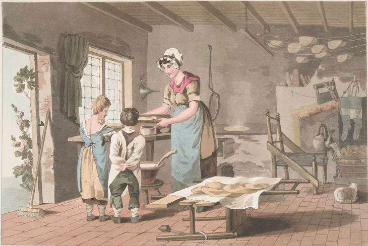 Image Title: Woman Making Oat Cakes This Yorkshire cook stands before the built-in bakstone, and the bread flake hangs from the ceiling. The North of England oatcake was an oval pancake ca. 11 x 6 inch (28×15 cm) with one smooth side. Its batter was made to a thick pouring consistency from fine-ground oatmeal, warm water, in some areas buttermilk, plus a leavening of yeast or later baking powder, then left to rise. Formerly it was cooked by spreading on a "riddleboard" then "thrown" onto a griddle called a “bakstone”. But after ca. 1850 it became the fashion to pour it directly onto the bakstone. The moist cooked Oatcakes were often rolled up with a savory filling, or else they were hung on a rack called a “bread flake” (pronounced fleeak) until crisp. Source: The Costume of Yorkshire, by George Walker (1781-1856). Engravings by R. & D. Havell. This image is available from the New York Public Library's Rare Books Division. Digital ID: 1123157